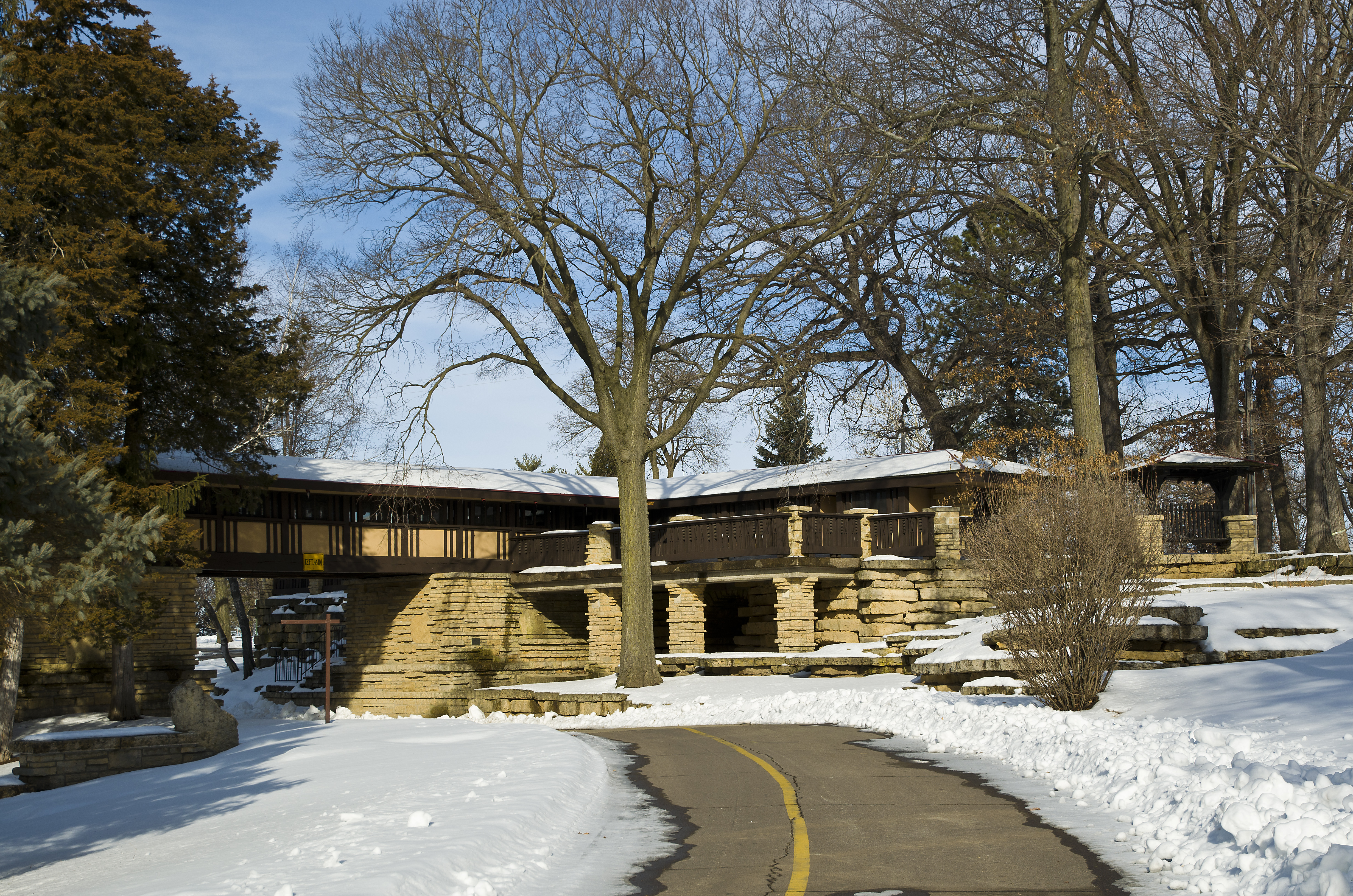 Eagle Point Park in Dubuque Iowa in January 2012